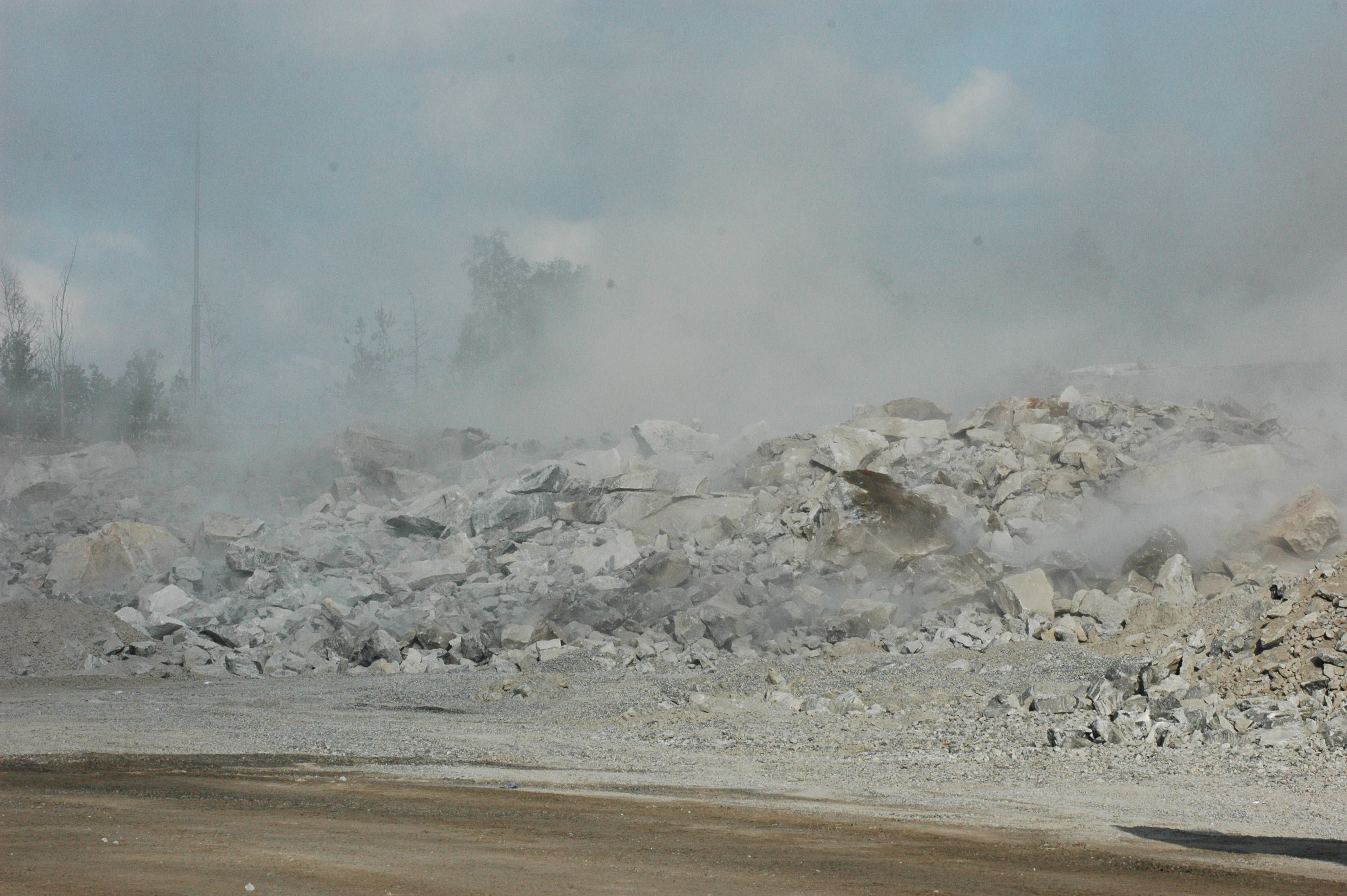 Blasting near e75, Vantaa, Finland, photo 6/6.